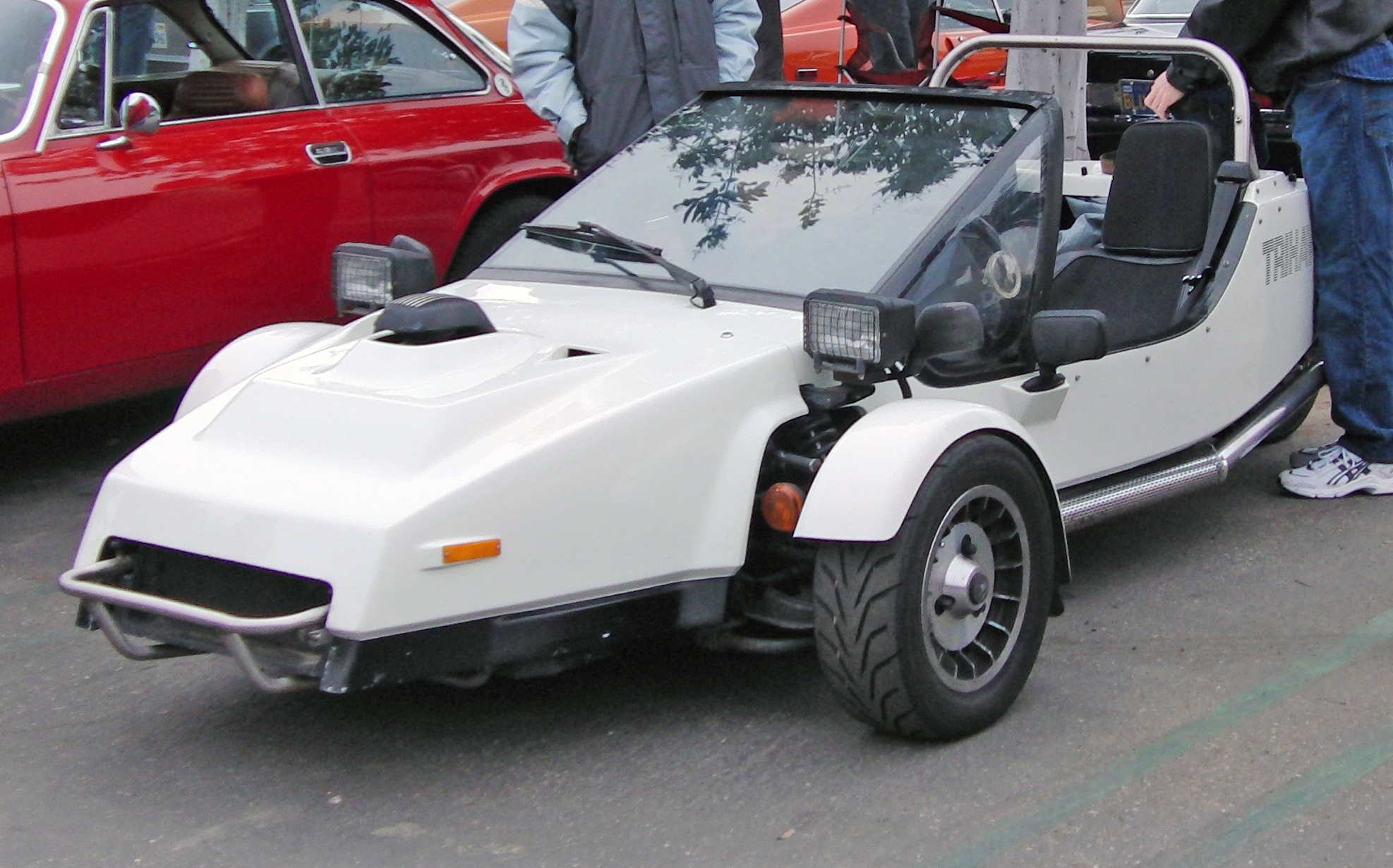 A 1980s Trihawk, a California built three-wheeled car seen in Irvine, CA.